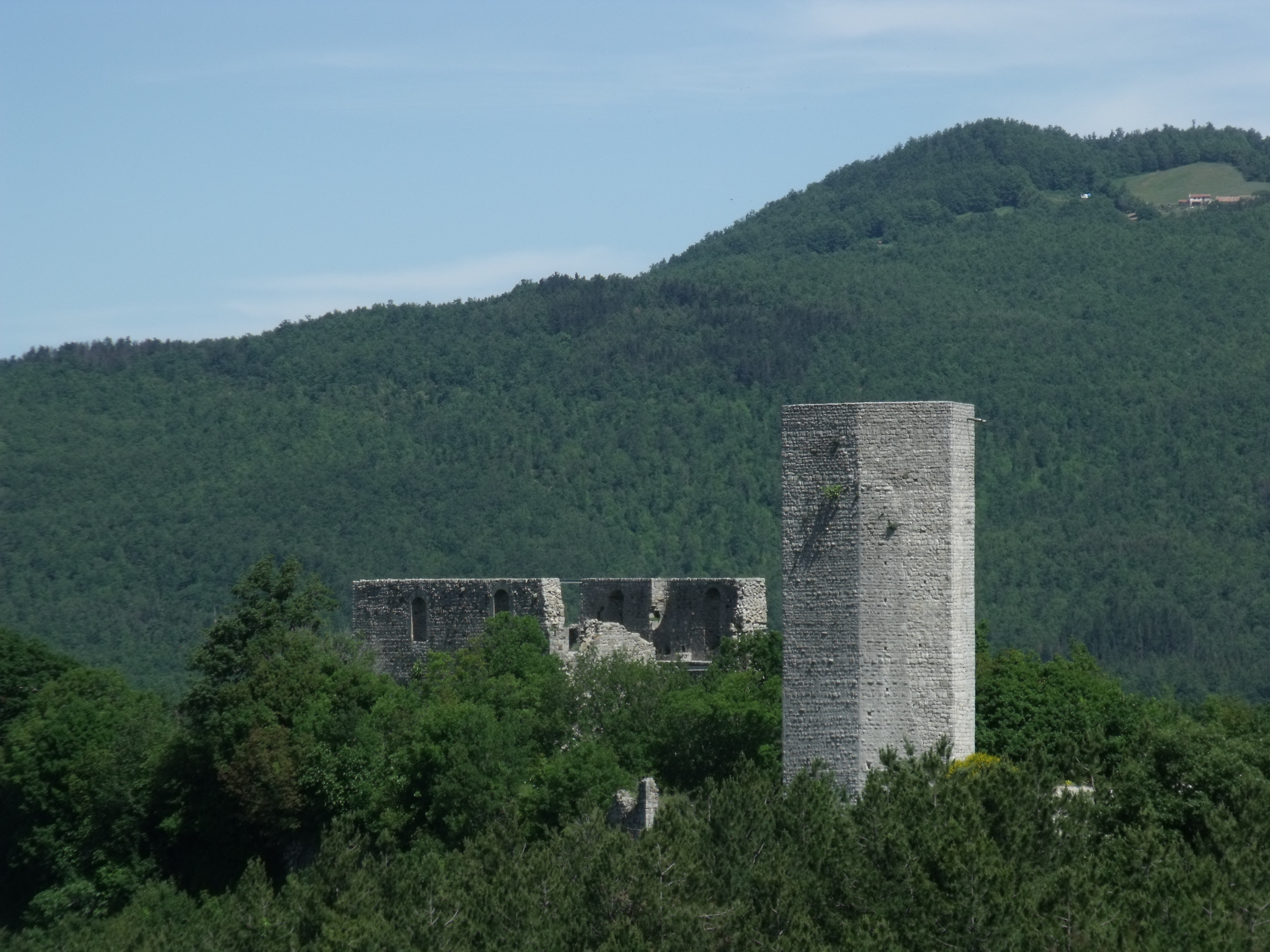 Castle Rocca Silvana near Selvena, Castell’Azzara, Monte Amiata Area, Province of Grosseto, Tuscany Italy